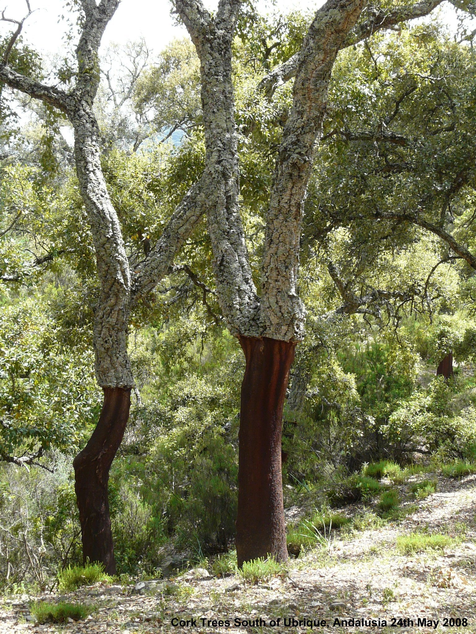 South of Ubrique in Southern Spain there is a vast forest of cork trees (Quercus suber), many of which have been recently (2008) stripped